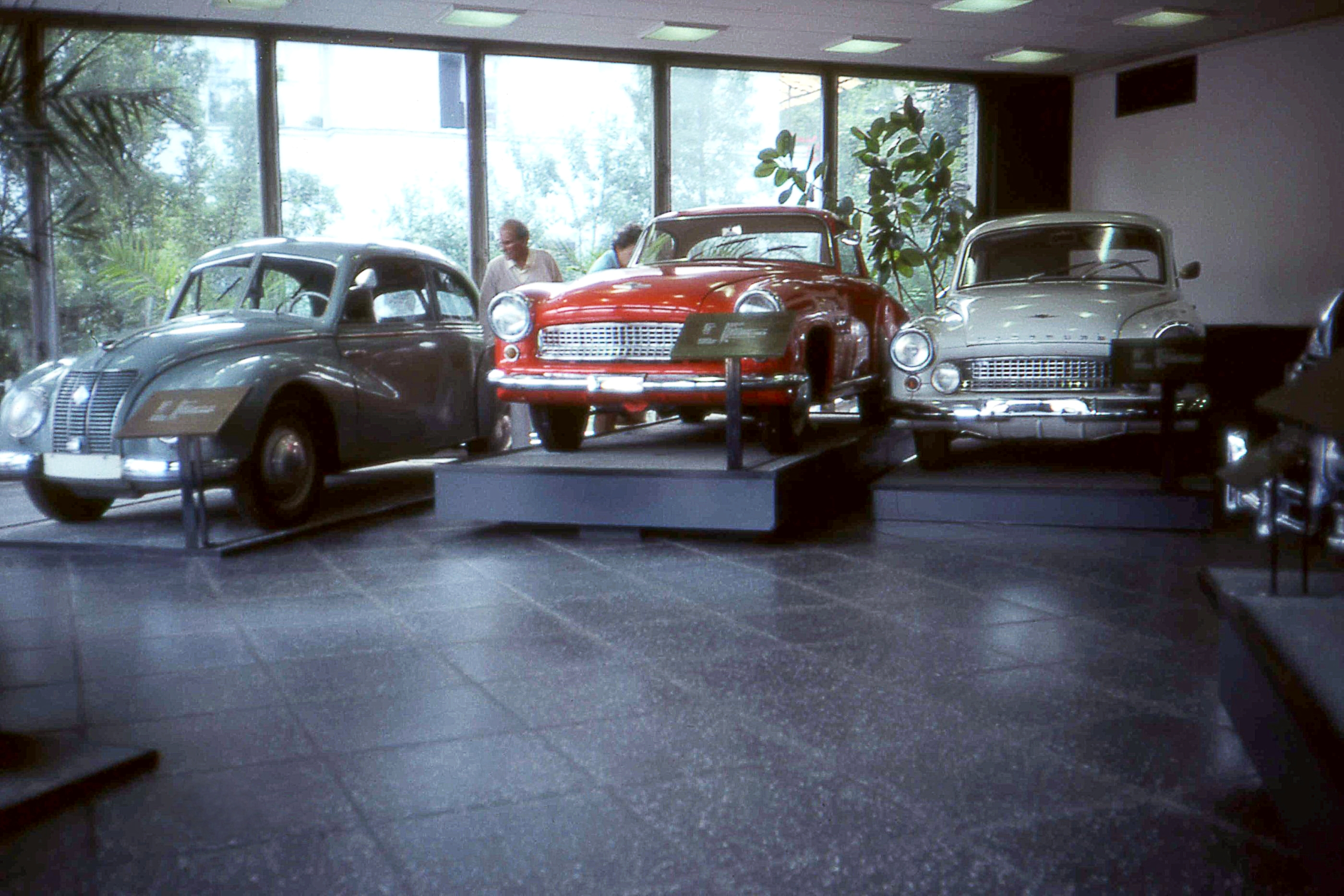 The interior of the rather spartan Wartburg Automobile Pavilion in Eisenach, the home of the famous marque. One the left a two-stroke IFA F9, with two Wartburgs to its right. There were no books leaflets or postcards for sale here. I think the red car is a Wartburg 313/1 Sport-Coupe. This exhibition hall was established in October 1967. In 1992, a new organisation, Automobilbau Museum Eisenach e.V.was founded. The exterior looked like this, but without the graffiti Hand held, no flash, Olympus XA camera, slide film.